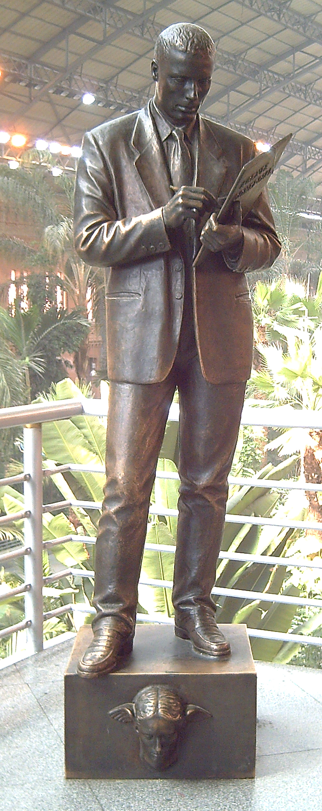 Homenaje al agente comercial ("Homage to the commercial agent"). Bronze statue at the Atocha railway station in Madrid (Spain), made by sculptor Francisco López Hernández (born 1932) in 1998.